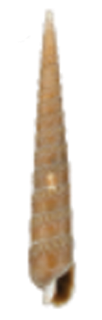 Shell of Cinguloterebra anilis.